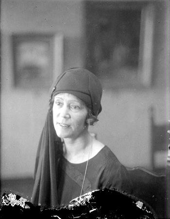 Photograph of the Finnish painter Anna Snellman-Kaila (1884–1962) at her exhibition in Tampere.